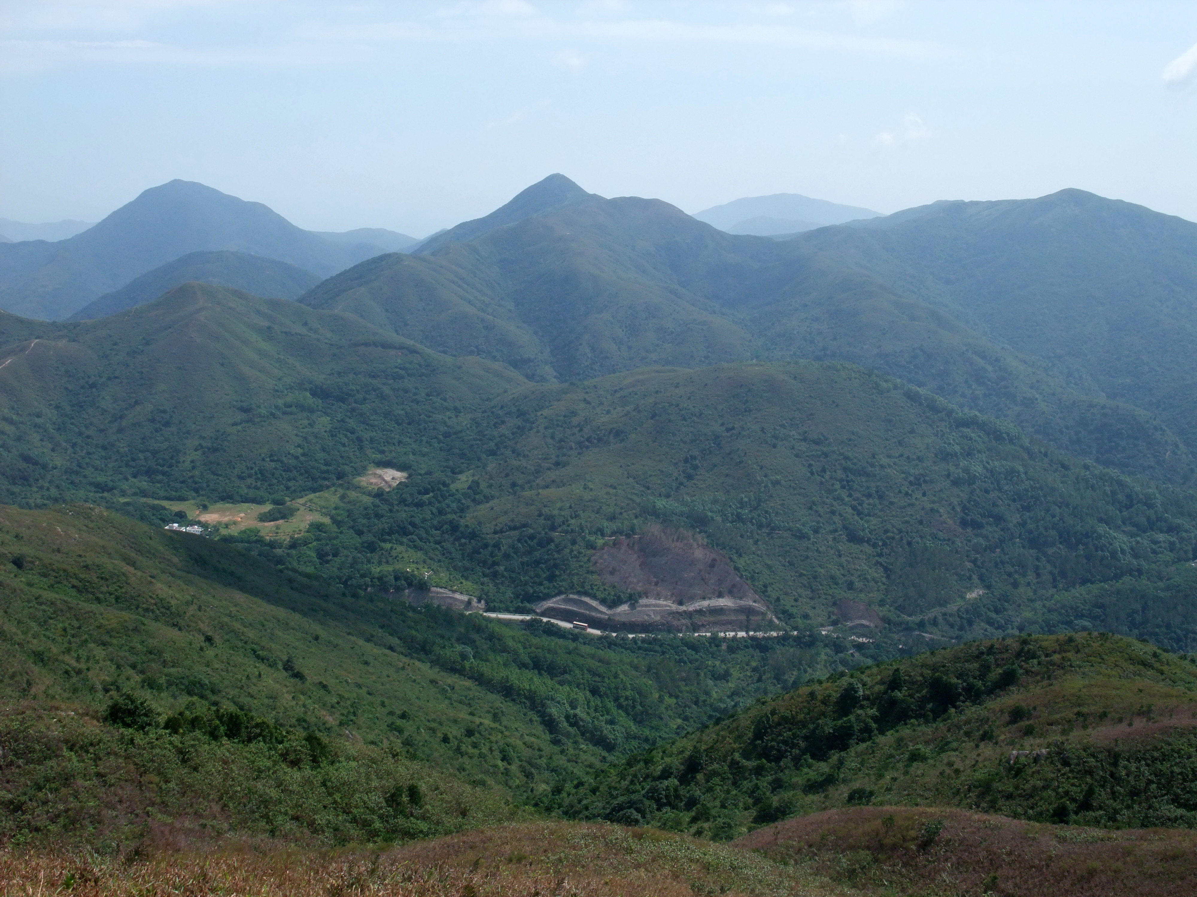 Photo of Pak Tam Au